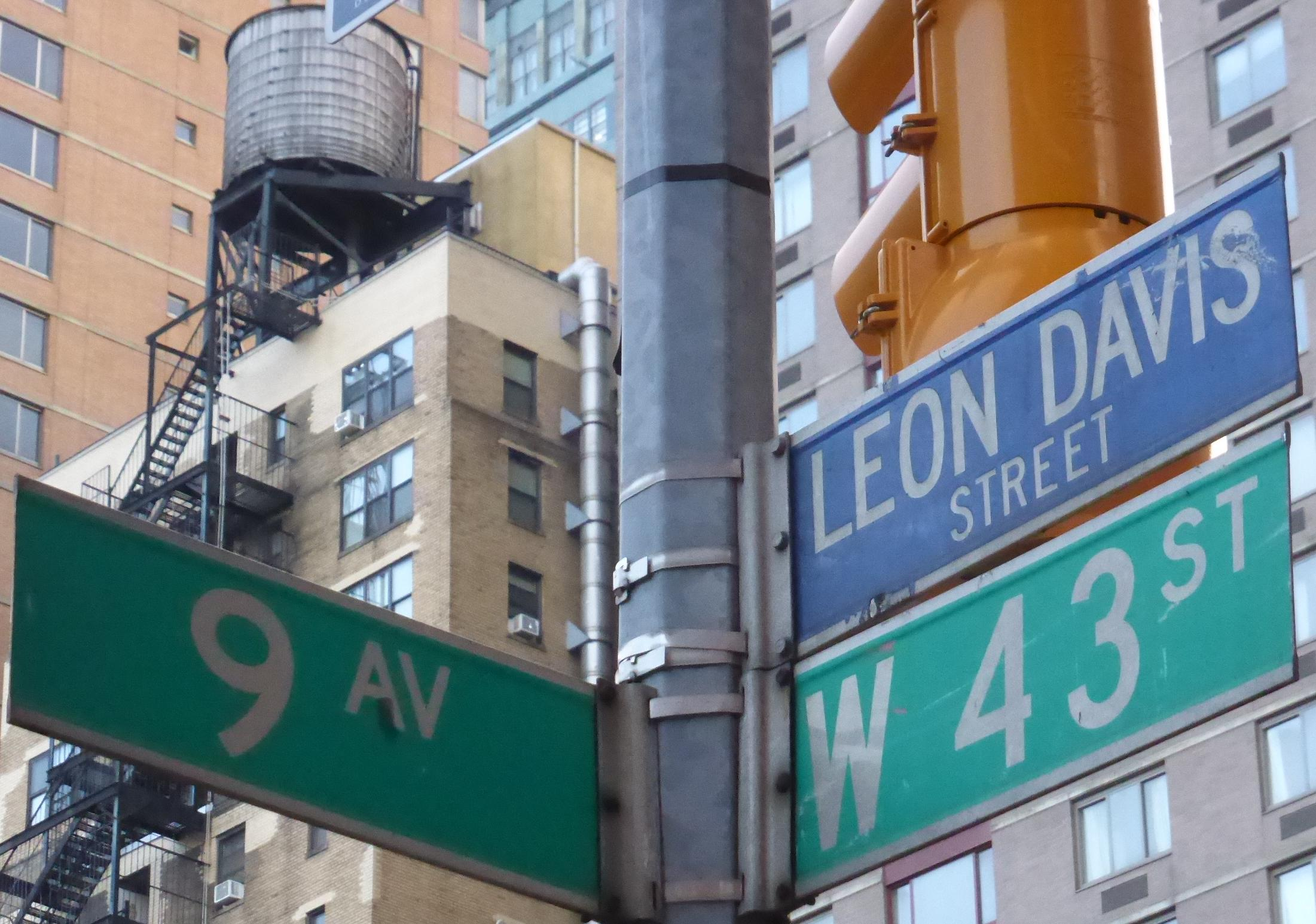 Leon Davis Street in Hell's Kitchen, New York City